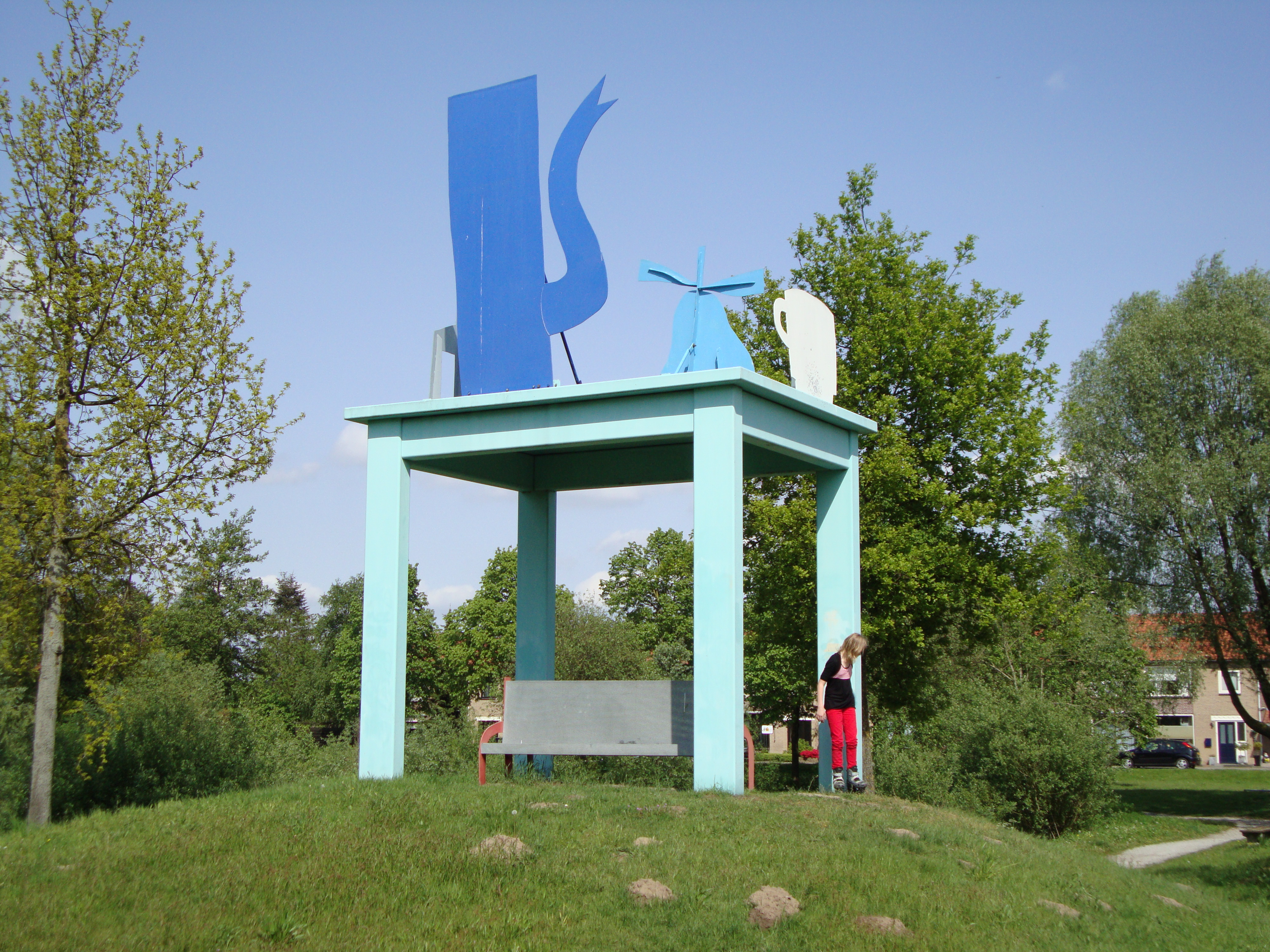 Sculpture De Tafel, Wijchen (Gld, NL). Klaas Gubbels, artist, 1994. The sculpture has a function as shelter nearby a skatepark